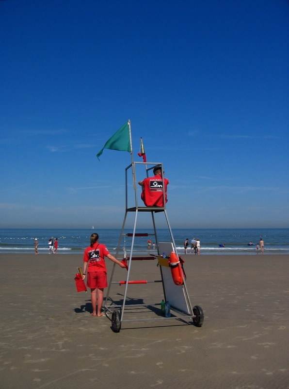 (caption from original) Lifeguards at work on the beach in Wenduine, De Haan, Belgium. The special chair is very common with the Belgian lifeguards.Lifeguards at work